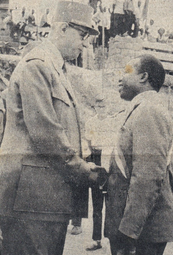 Barthélemy Boganda (right) receiving Prime Minister Charles de Gaulle (left) in Brazzaville to discuss the political future of Ubangi-Shari